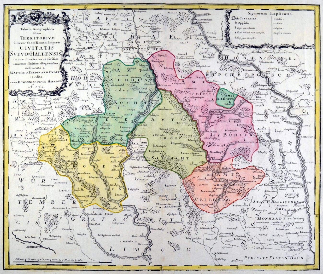 The territory of the Free Imperial City of Schwäbisch Hall in the mid 18th century. Apart from the city proper, Hall ruled over an extensive hinteland. Each administrative area ("Amt") is shown in a separate colour. Map printed by Homann Heirs (Homann Erben) in 1762.